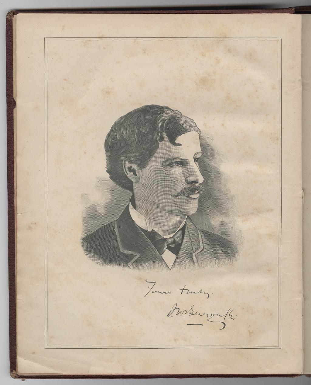 Portrait of Canadian cartoonist John Wilson Bengough in the frontispice to the two-volume collection A Caricature History of Canadian Politics (1886)